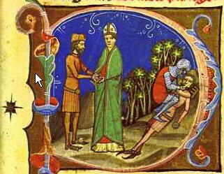 Pietro Orseolo